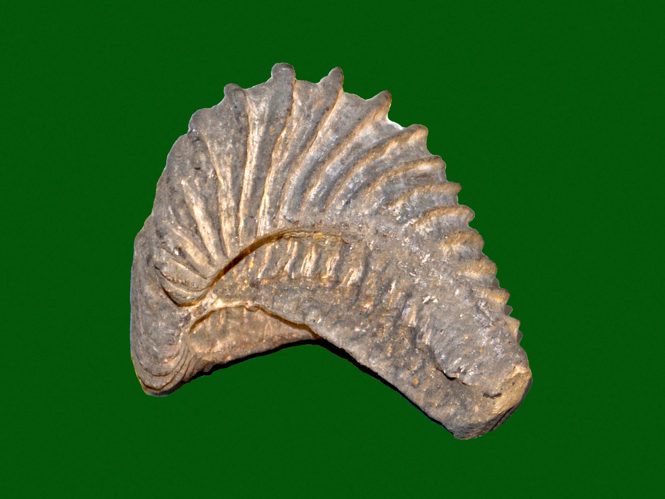 Fossil Pterotrigonia caudata (Agassiz 1840) from Isle of Wight at Gallery of Paleontology and Comparative Anatomy, Paris.